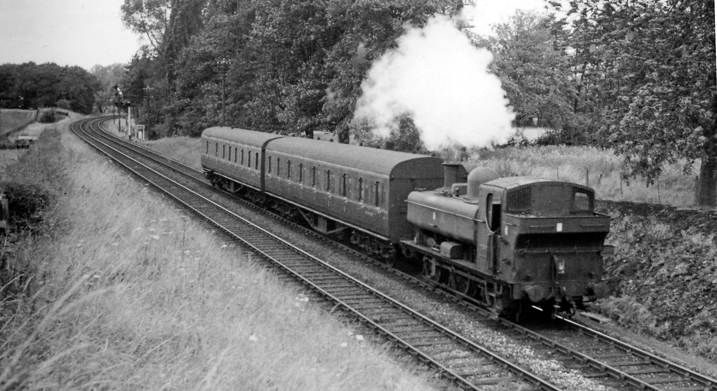 Local train from Crewe approaching Market Drayton Junction, Wellington. View NW, towards Market Drayton, Nantwich and Crewe: ex-GW Wellington - Nantwich ( - Crewe) line, which was important especially for freight but was closed 9/9/63 for passenger traffic, 11/5/67 completely. Here the 13.02 from Crewe is headed by the engine which when withdrawn from service in 11/66 had the distinction of being the very last GW (standard gauge) locomotive to run on BR: '8750' class 0-6-0PT No. 9774 (built 3/36).